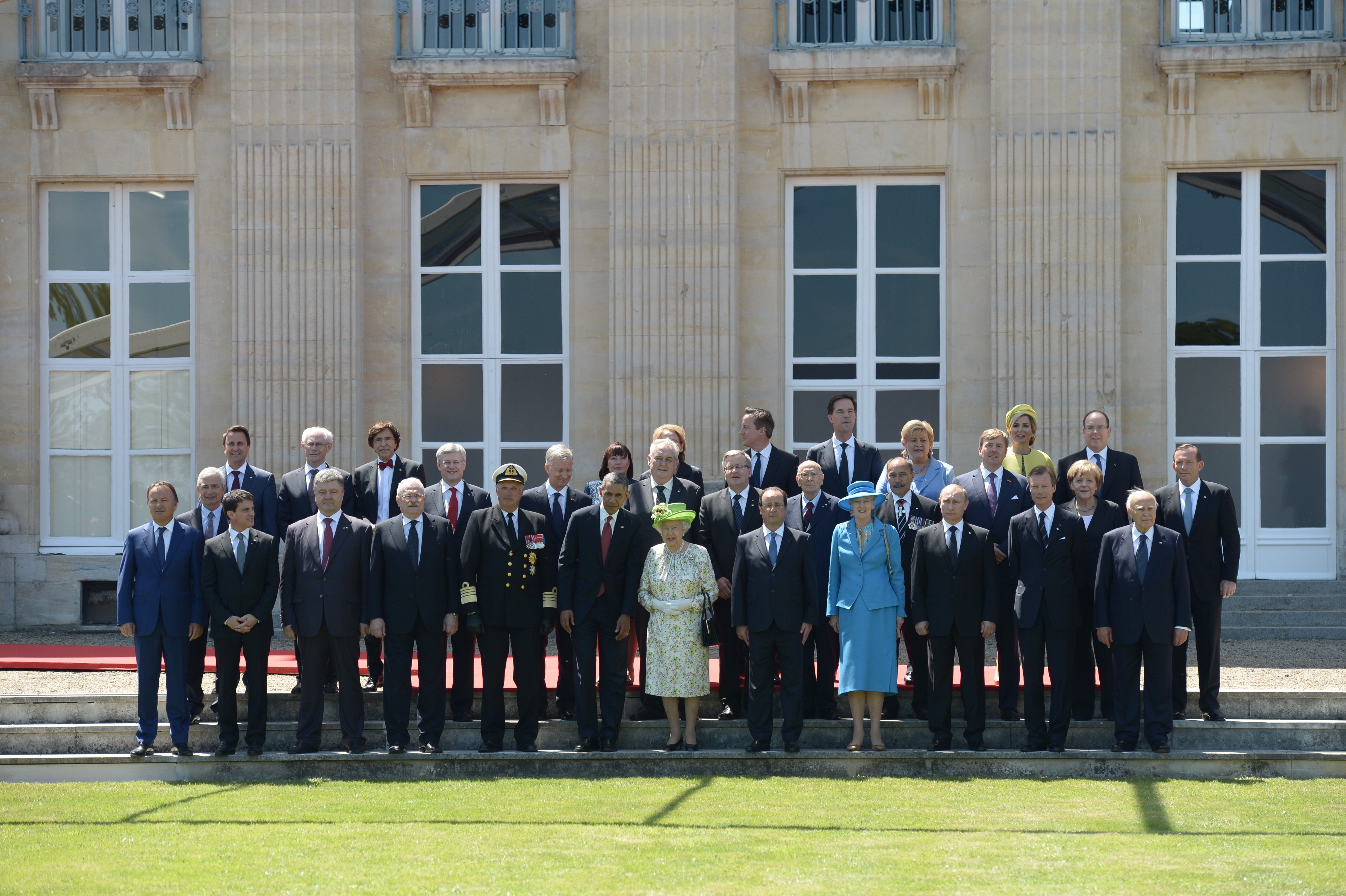 World leaders during celebrations marking the 70th anniversary of the Normandy landings (“D-Day”) On the photo from left to rightː Last rowː Xavier Bettel (PM Luxembourg), Herman Van Rompuy (President of the European Council), Elio Di Rupo (PM Belgium), [empty space], ? (hidden), David Cameron (PM United Kingdom), Mark Rutte (PM the Netherlands), Erna Solberg (PM Norway);Queen Maxima, Queen Consort of the Netherlands; Prince Albert II, The Prince of Monaco. Second rowː ?, [empty space], Stephen Harper (PM Canada); Philippe, King of the Belgians; ?, President Miloš Zeman of the Czech Republic, President Bronisław Komorowski of Poland, President Giorgio Napolitano of Italy, General Gouvernor Jerry Mateparae of New Zealand; King Willem-Alexander I of the Netherlands; Angela Merkel (chancellor of Germany), Tony Abbott (PM Australia). Front rowː ?, Manuel Valls (PM France)?, President Petro Porochenko of Ukraine, President Károlos Papoúlias of Slovakia; King Harald V of Norway; President Barack Obama of the United States; Queen Elizabeth II of the United Kingdom; President François Hollande of France; Queen Margrethe II of Denmark; President Vladimir Putin of Russia; Grand Duke Henri I, Grand Duke of Luxembourg; President Károlos Papoúlias of Greece.